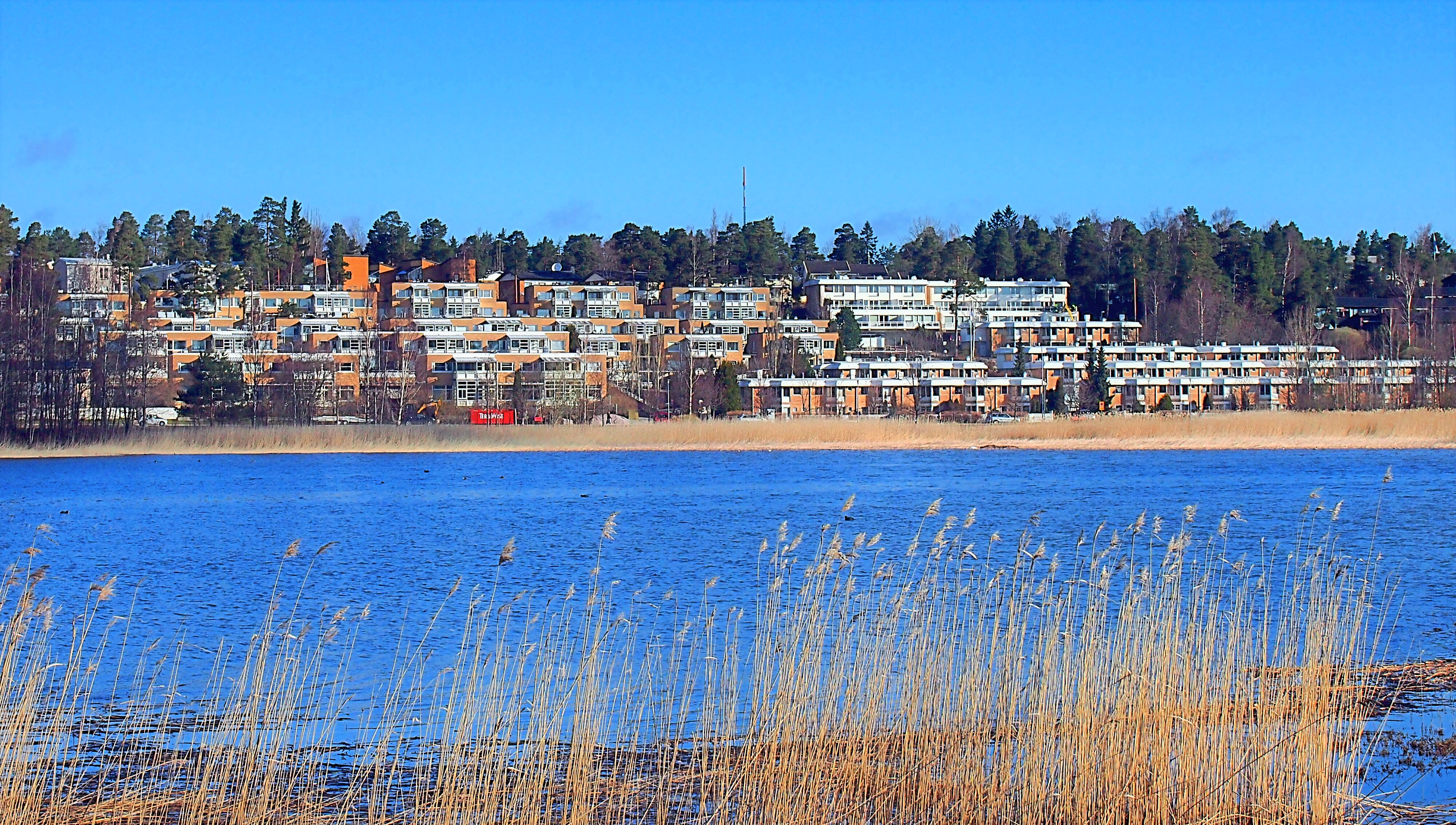 Laurinlahti, Espoo, Finland